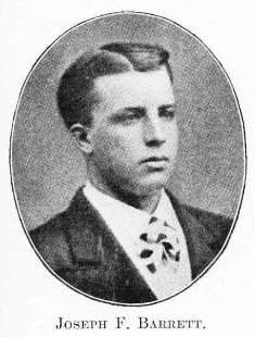 This is a youthful image of Joseph Franklin (actually Francis) Barrett, from the time he entered college in 1873. Publication dates to 1910. Barrett was one of six Founders of Phi Sigma Kappa fraternity in 1873. While generations of Phi Sigs were taught that Franklin was his middle name, a document he signed in 1910 shows the middle name to be Francis.